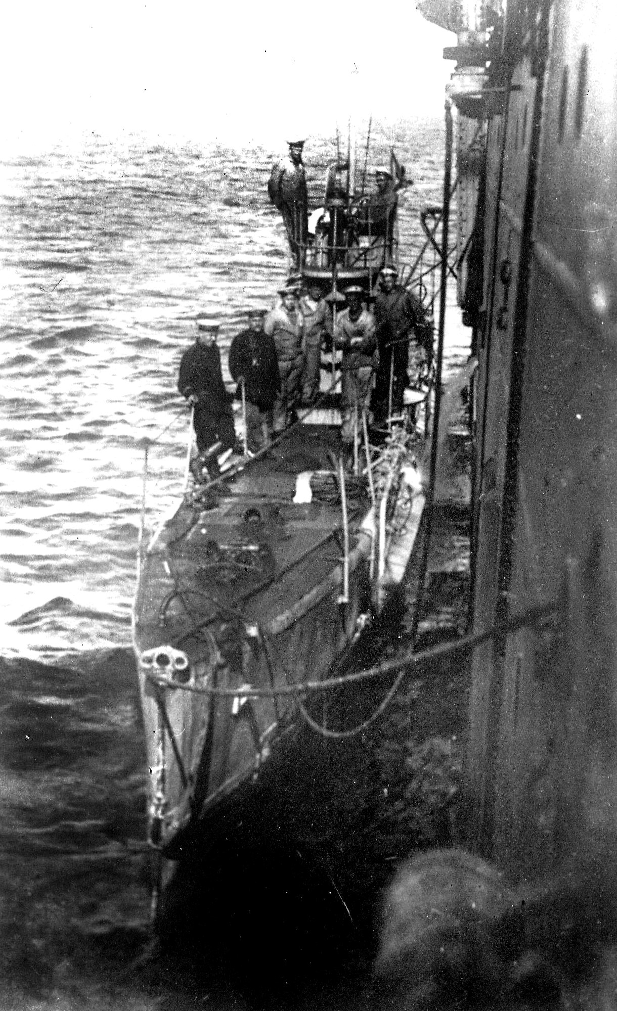 The Imperial Russian submarine «Okun'».